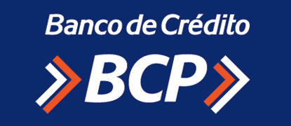 logo of BCP (banco de credito del peru)